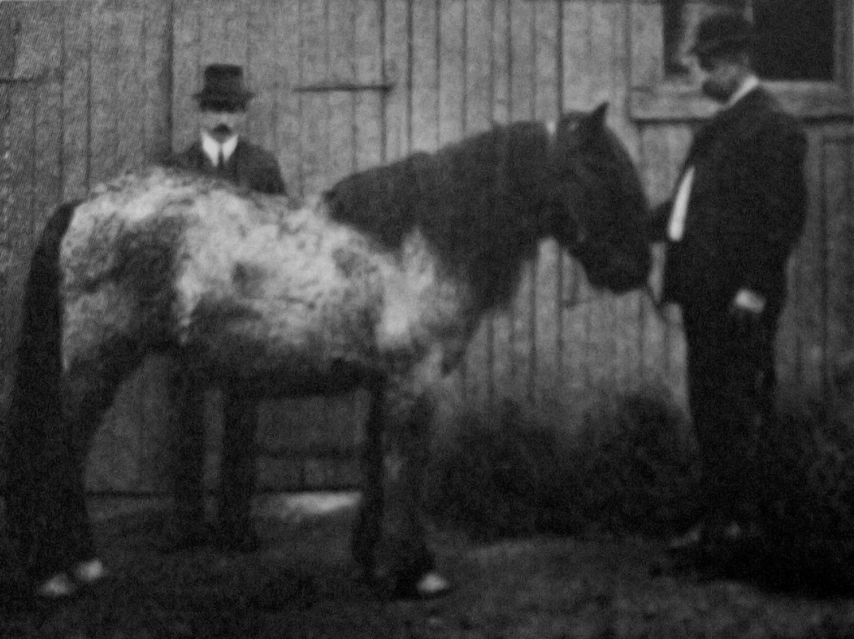 A roan (?) Finnhorse, 130 cm, from Karelian Isthmus, Finland, in 1909